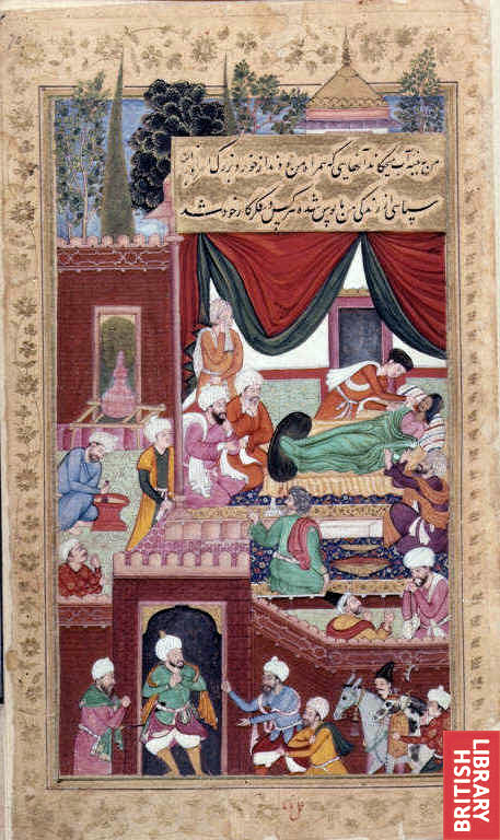 "Babur treated by doctors during a serious illness (1498). An illustration to the memoirs of the Emperor Babur. Illustrator: Nanha. India, c.1590"*